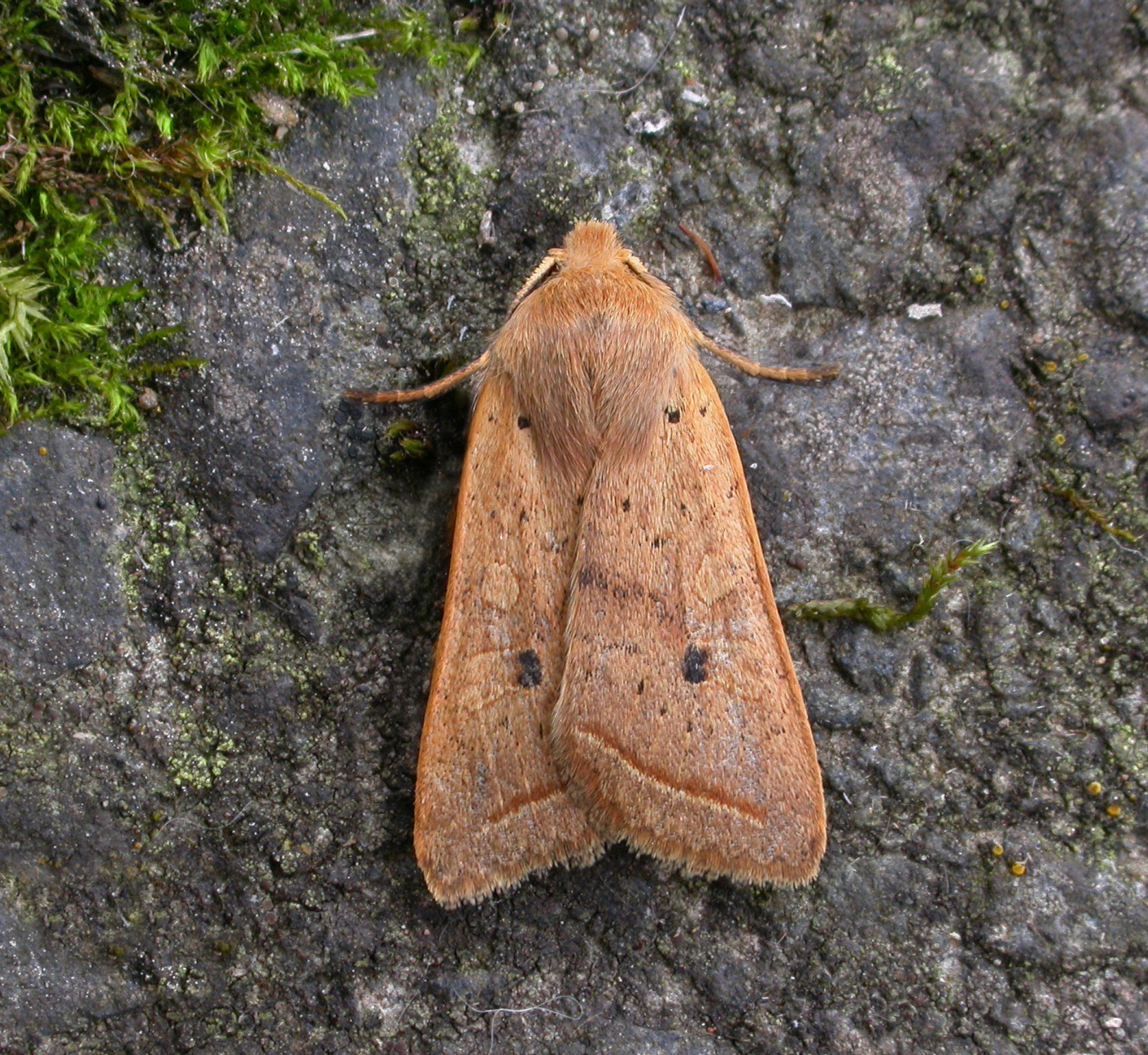 73.190 BF2264 Yellow-line Quaker, Agrochola macilenta